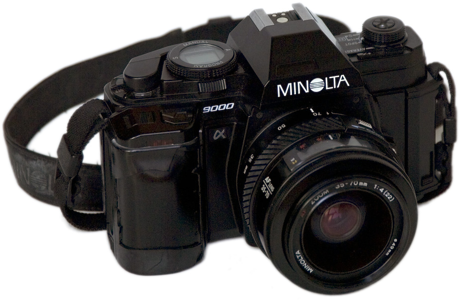 The camera body in this photograph is a Minolta α (Alpha, Maxxum, Dynax) 9000 single-lens reflex (SLR). The lens is a Minolta autofocus 35–70 mm f/4 zoom lens. Much of the rubber coating of the hand grip for the right hand is missing, exposing the black surface beneath. I took the photo.